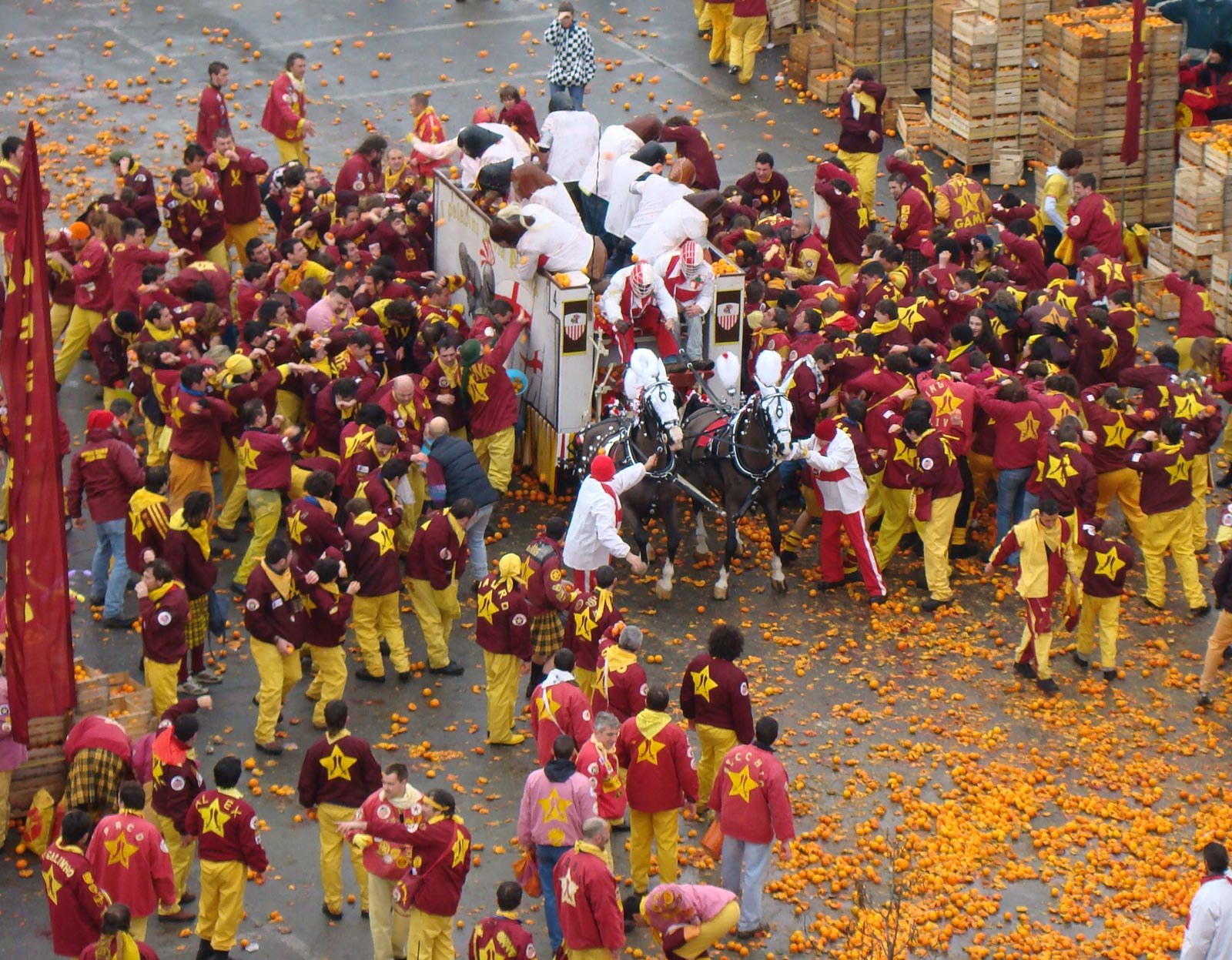 Mercenari's battle of oranges taken from Santo Stefano Tower in Ivrea